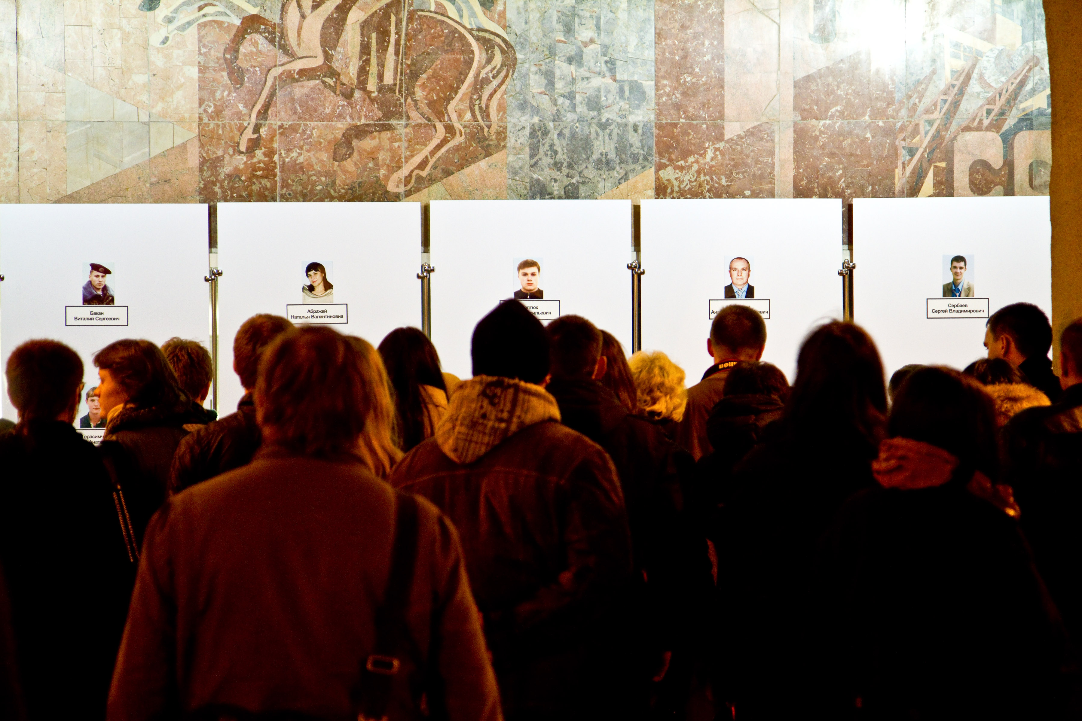 People commemorate the victims of 2011 deadly bomb blast in Minsk metro. Flowers and icon lamps in the front of the closed entrance to "Kastryčnickaja" station, where the blast was made. 12.04.2011. Minsk, Belarus.